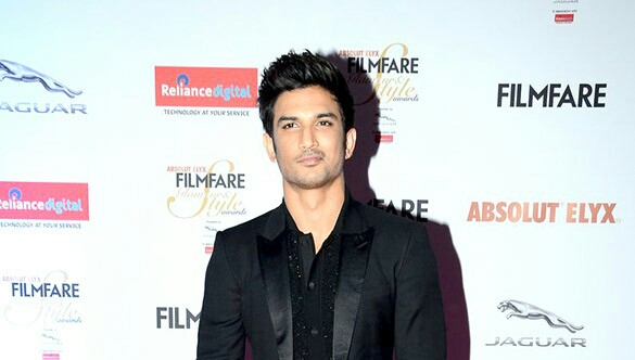 Sushant at Filmfare Glamour & Style Awards, 2016